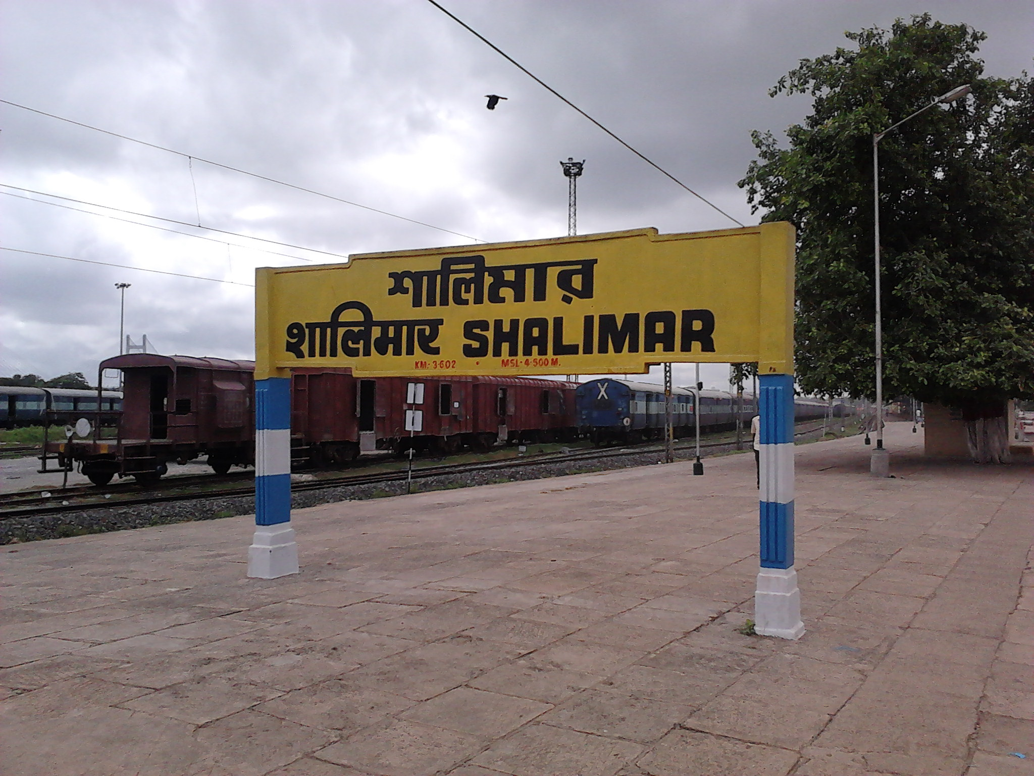 The Shalimar railway station of South Eastern Railway, Howrah.